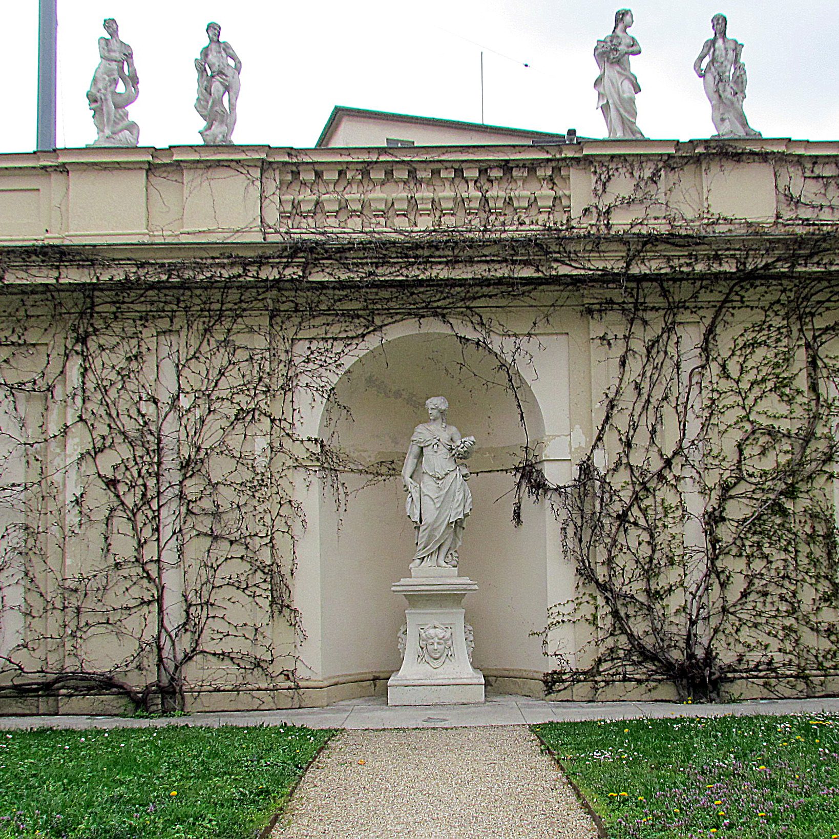 Niche at Gartenpalais Liechtenstein, Wien